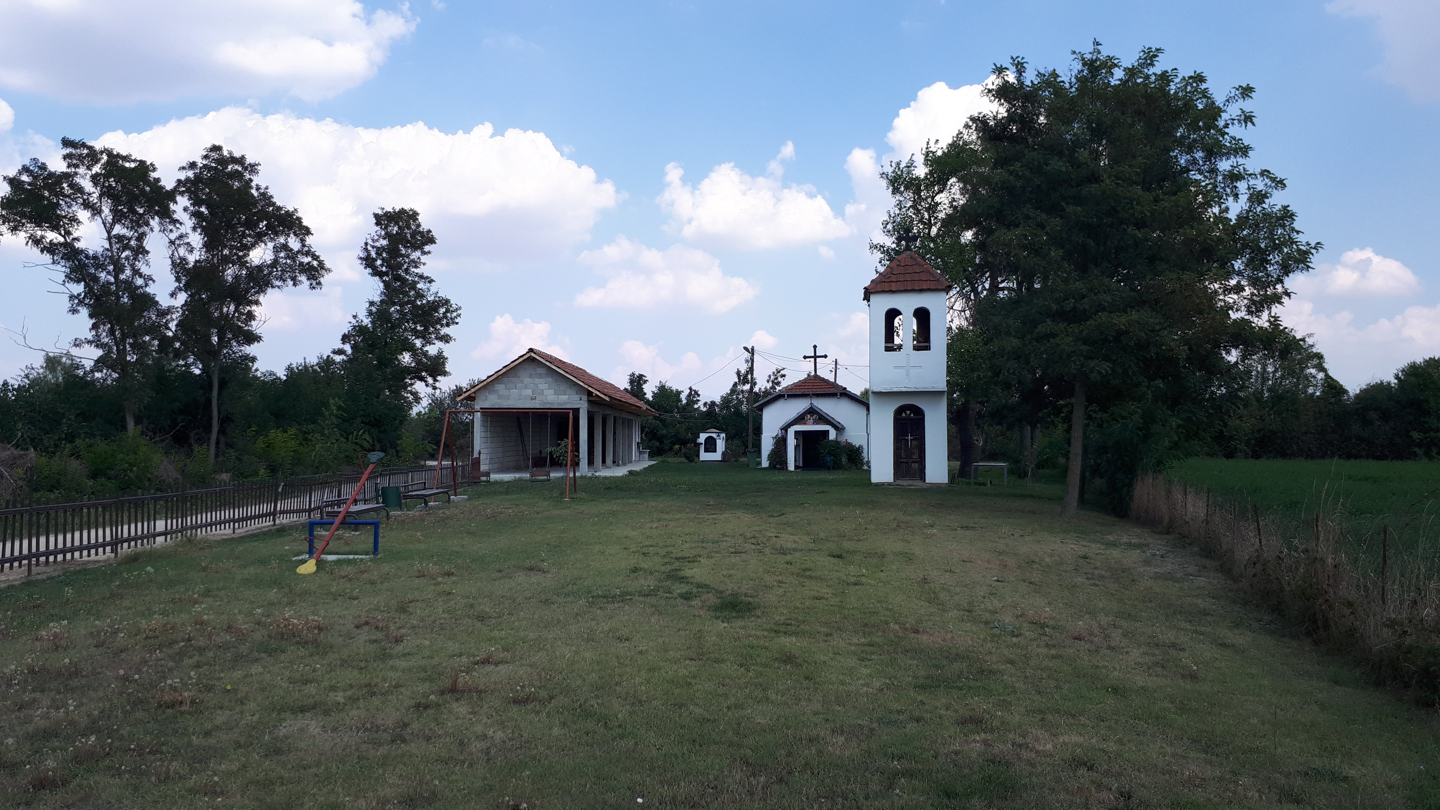 View of the Saint Athanasius Church in the village Žabeni